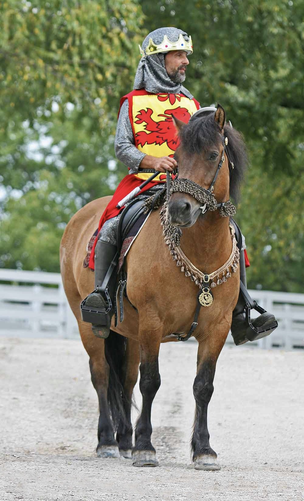 Image by Heather Abounader